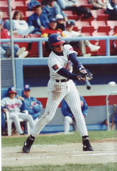 Alex Rodriguez batting during a 1994 Calgary Cannons minor league baseball game.